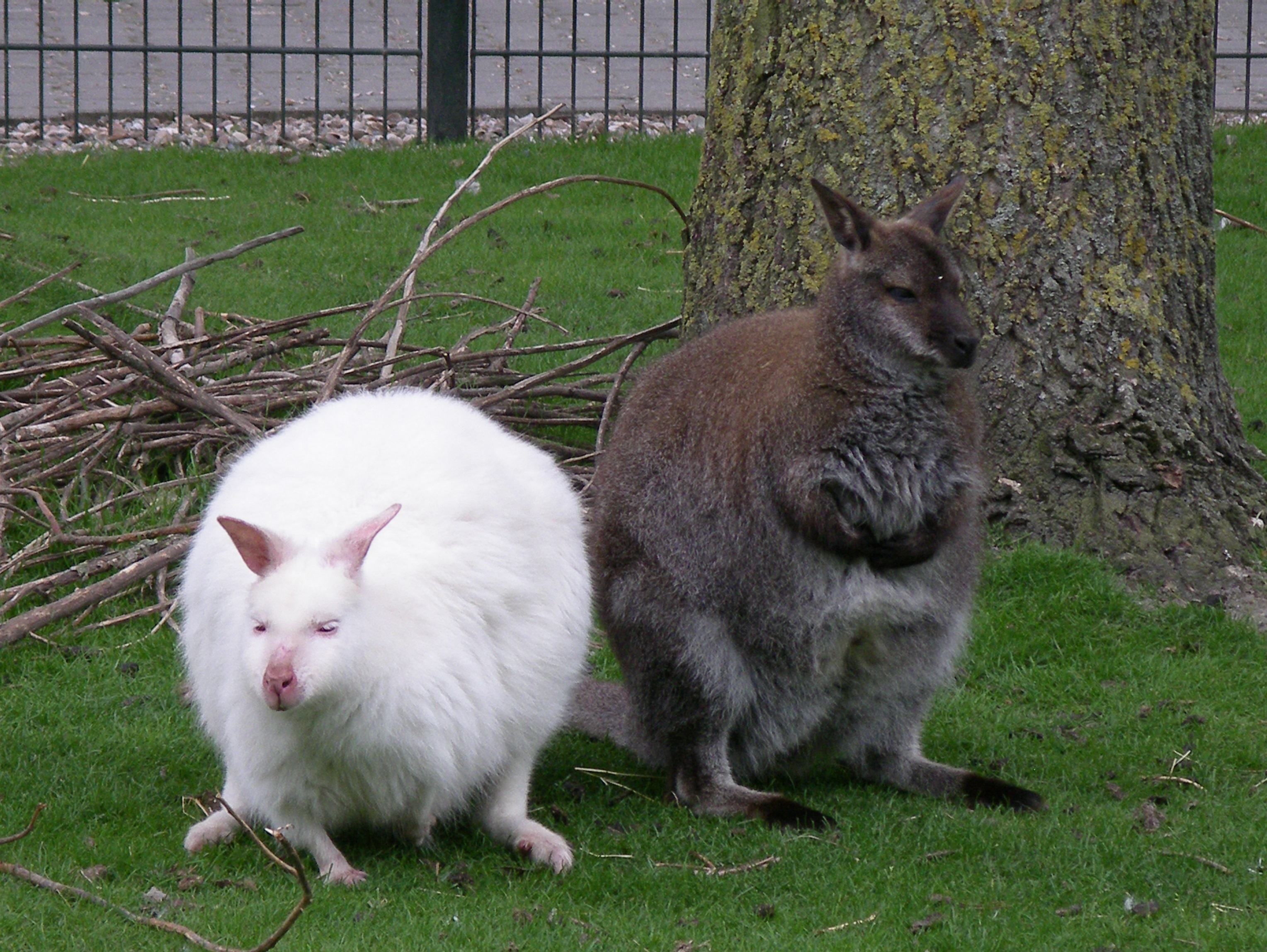 Wallabies, Van Blanckendaell Park, Tuitjenhorn, The Netherlands